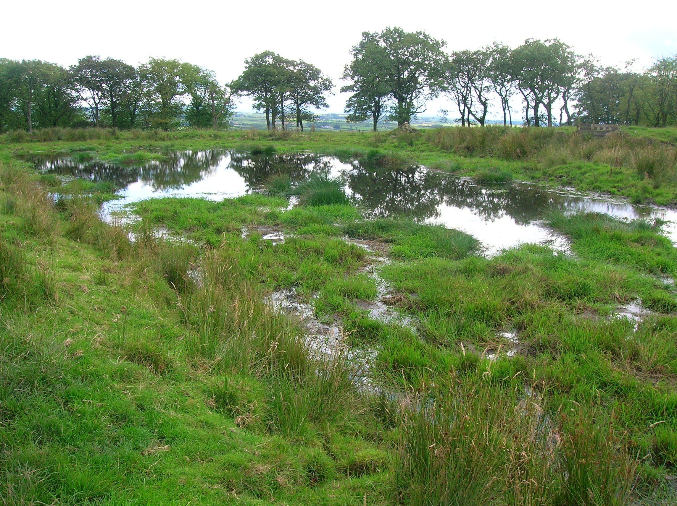 The Cuff Hill Lochan, Beith, North Ayrshire, Scotland